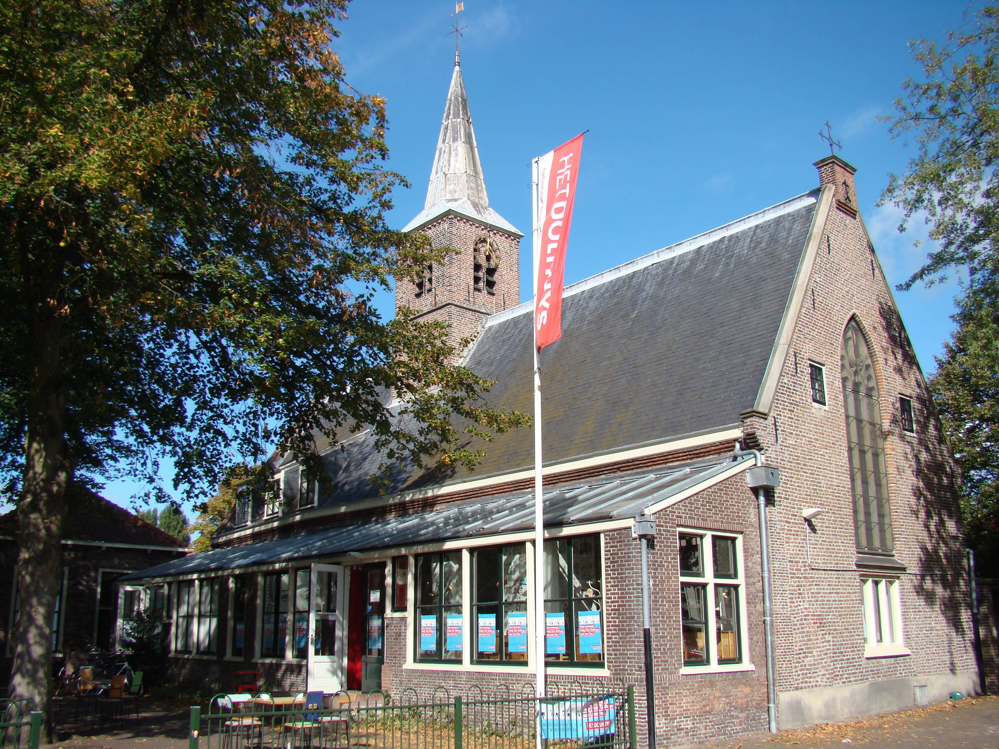 Dolhuis at Haarlem, Netherlands